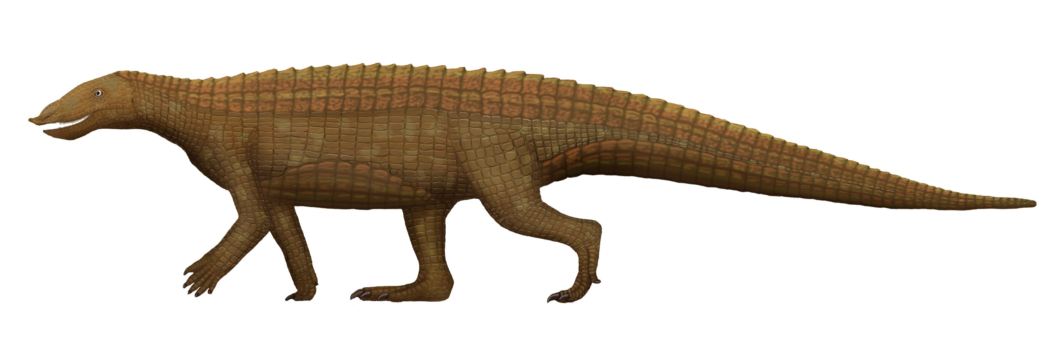 Restorations of Stagonolepis robertsoni by Szymon Górnicki, after skeletal by Hartman, 2016